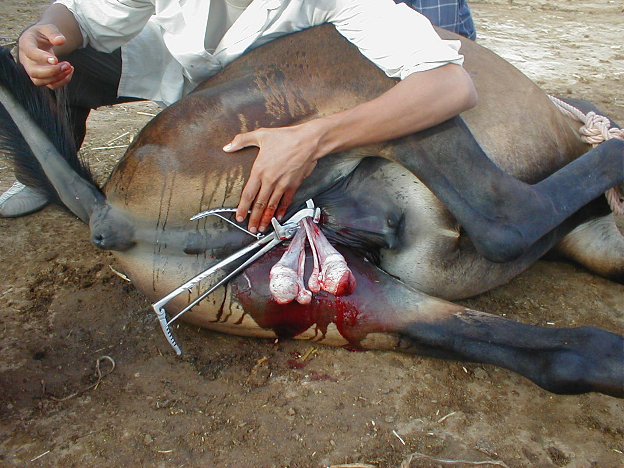 Position of emasculator for sake of haemostasis during field mule castration (unique incision on "raphae mediae").